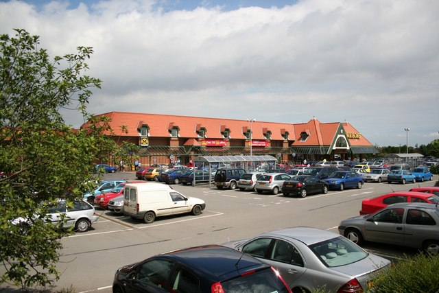 Morrison's Supermarket. On Laceby Road just outside Grimsby